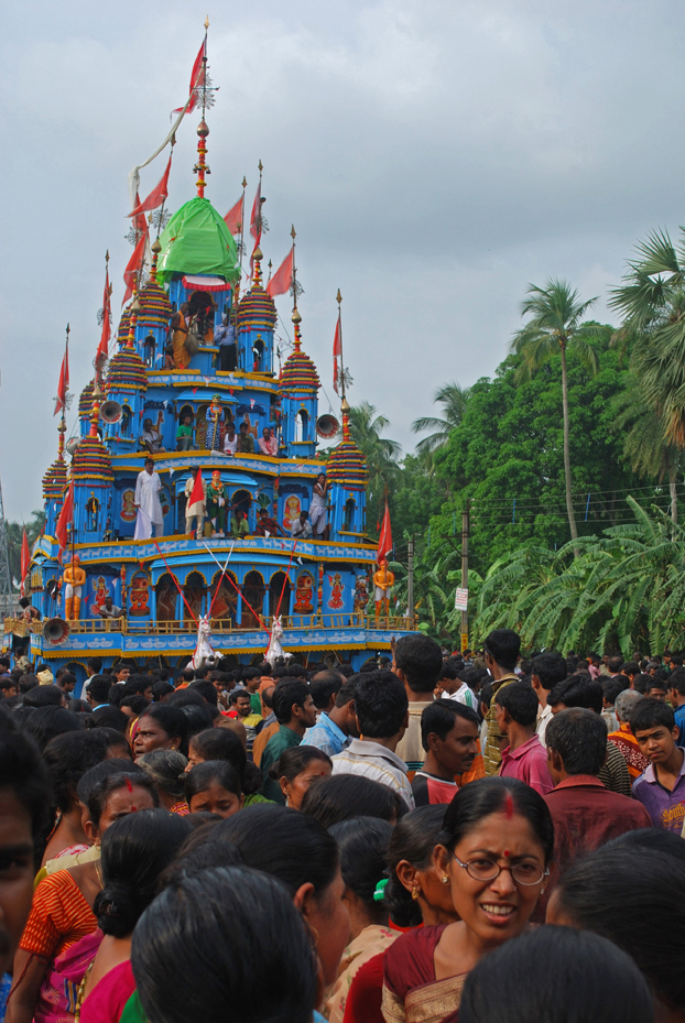 Mahishadal Rath Yatra